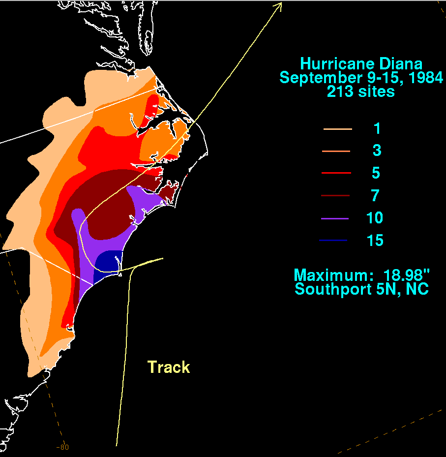 Rainfall produced by Hurricane Diana during September 1984.